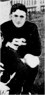 Photo of Ned Bowen in 1912